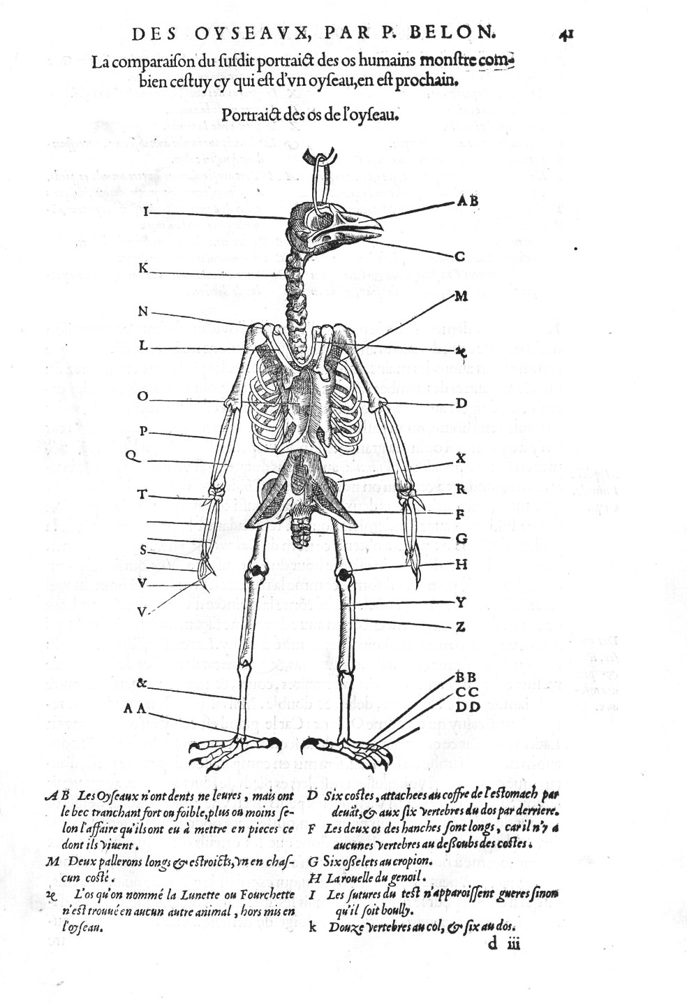 Illustration of bird skeleton